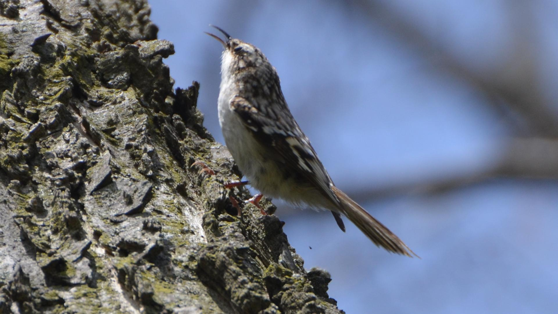 Tower Grove Park 4/7/13